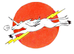 Emblem of the 369th Fighter Squadron (USAAF).